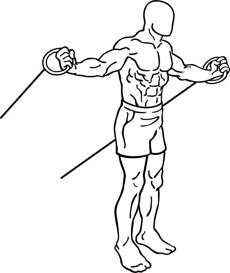 an exercise of chest